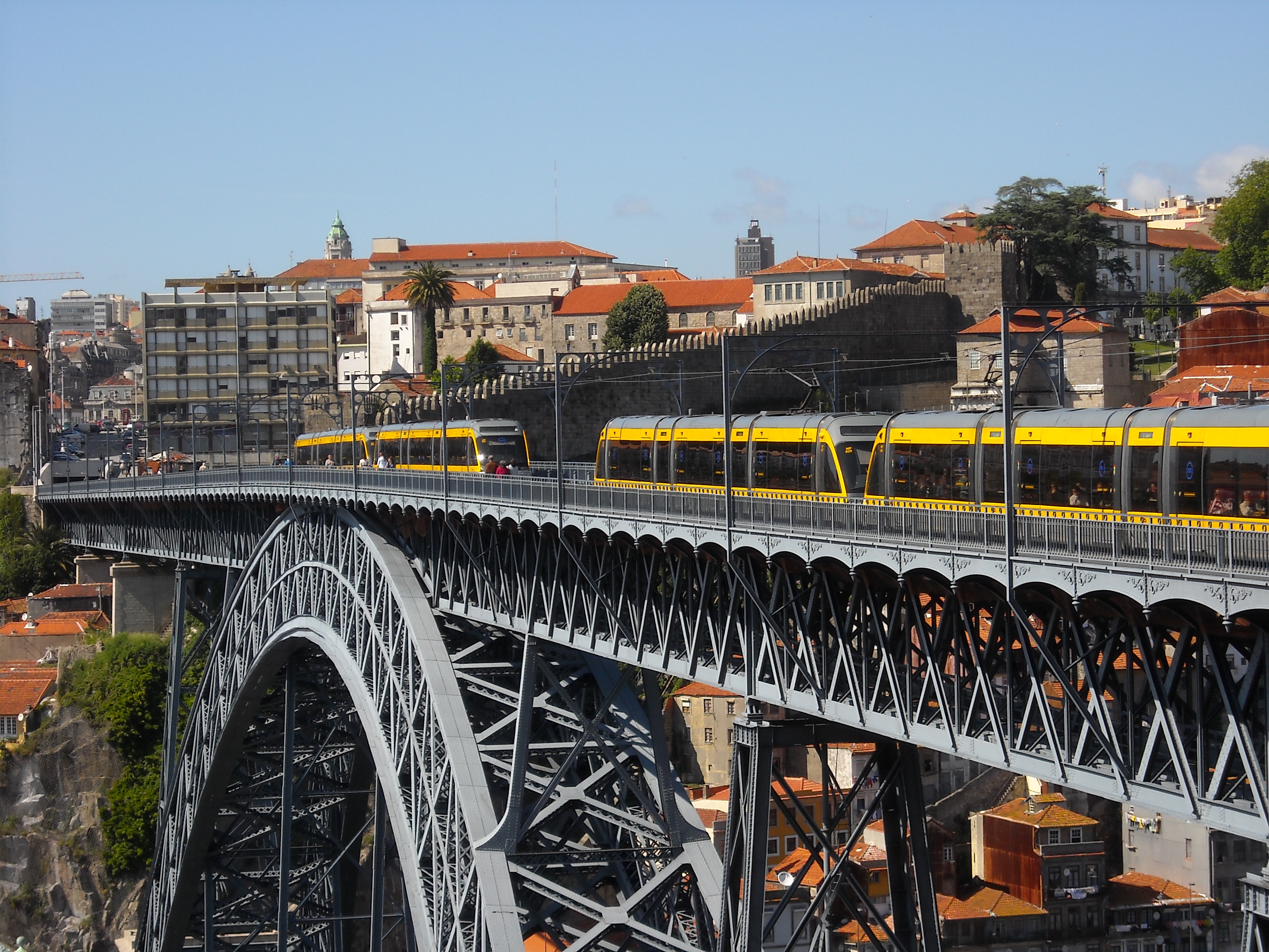 Two trains of the Metro do Porto light rail system passing on the Dom Luís Bridge.